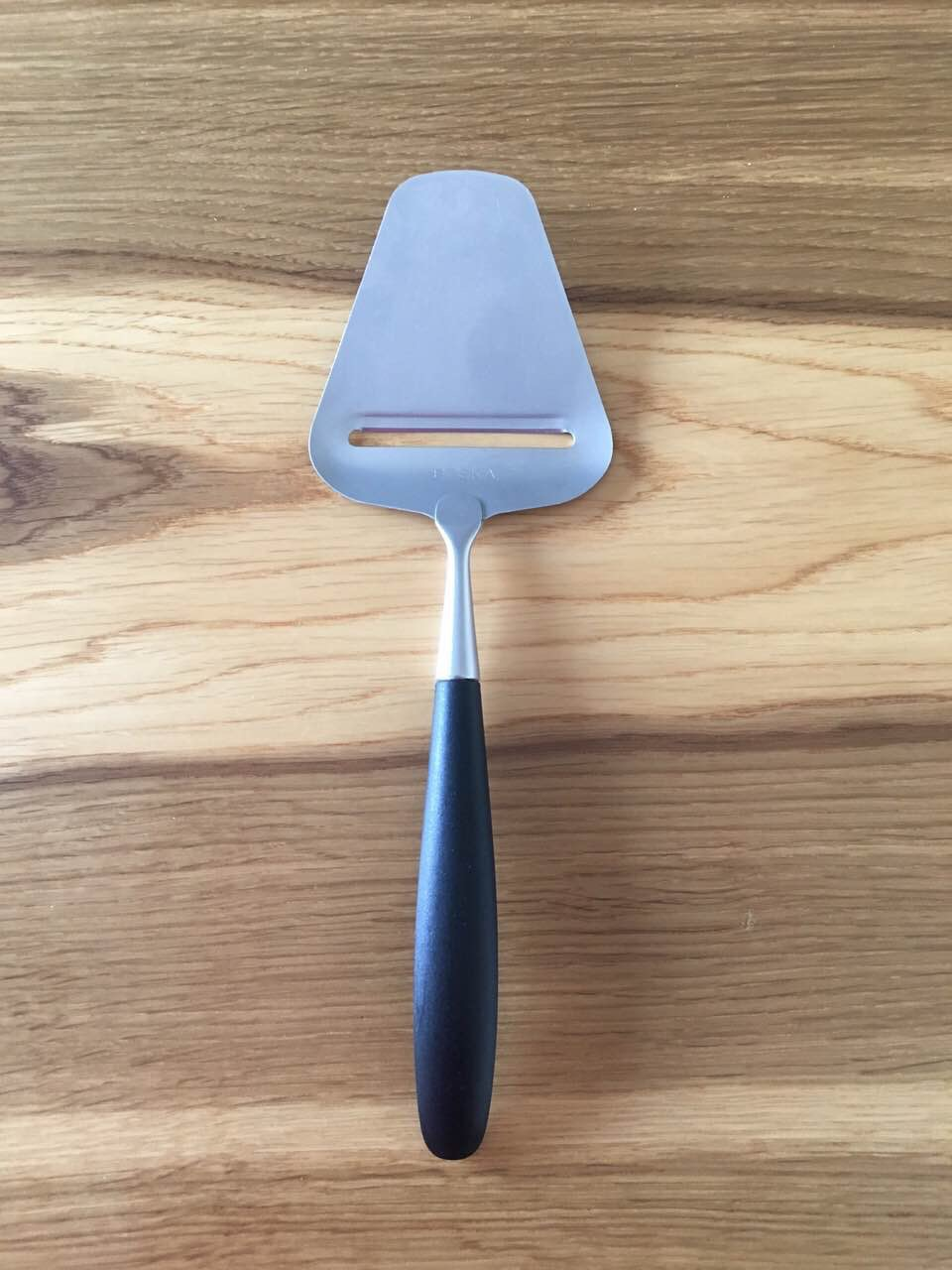 Cheese slicer